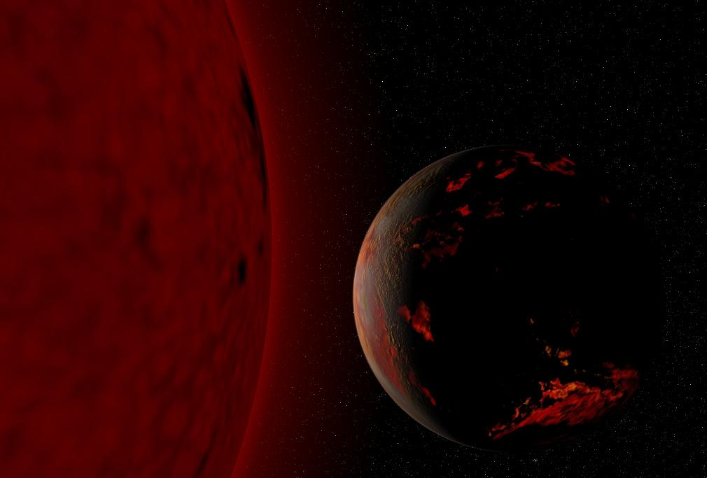 Image of what Earth may look like 5-7 billion years from now, when the Sun swells and becomes a Red Giant.